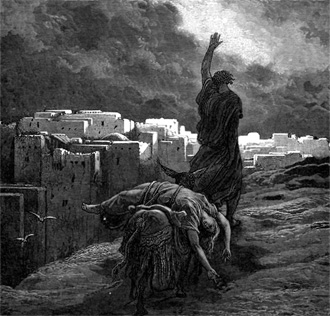 The levite finds his dead concubine